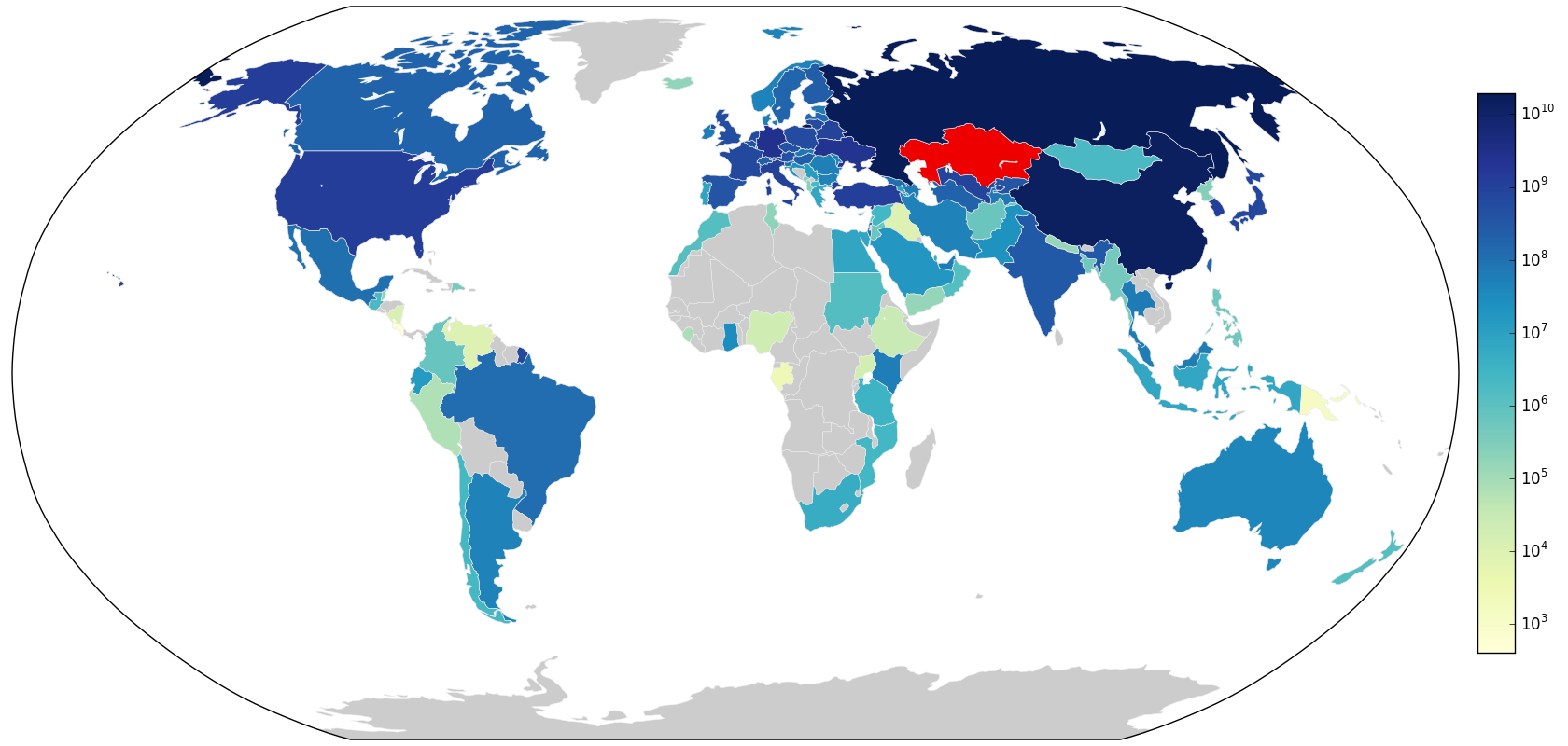 Импорт Казахстана на 2013-й год